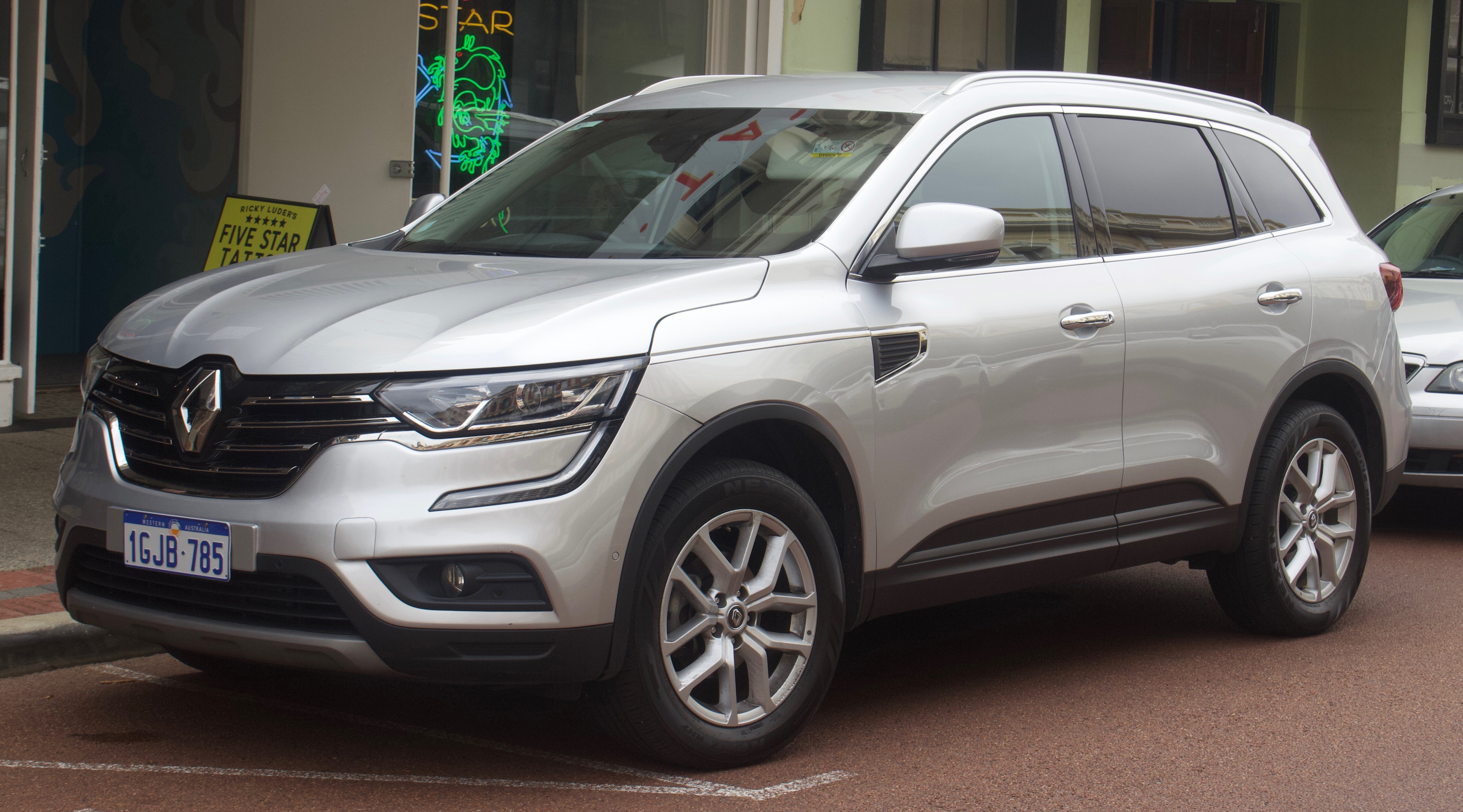 2017 Renault Koleos (HZG) Zen wagon. Photographed in Fremantle, Western Australia, Australia.